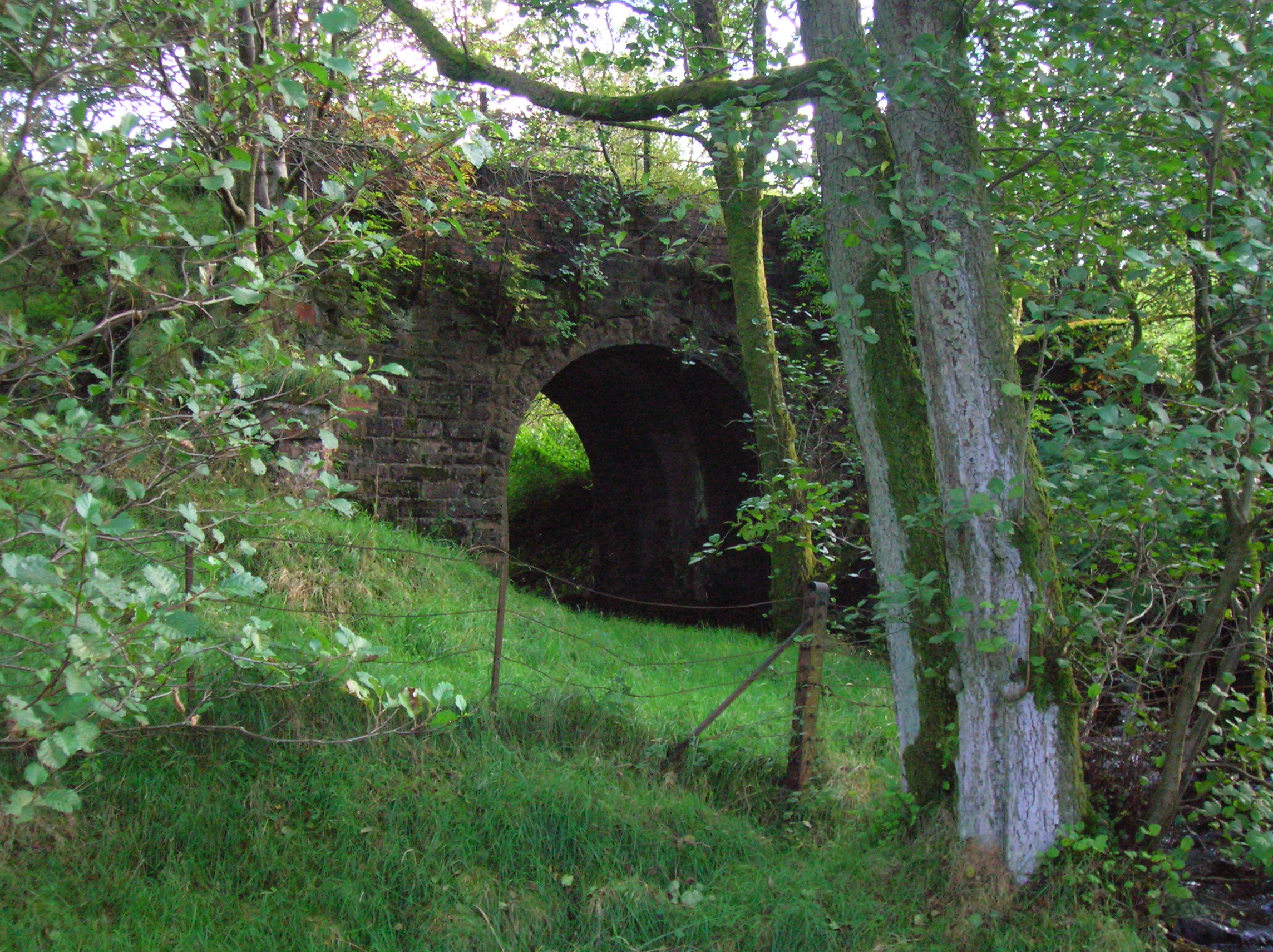 Kerse Glen railway bridge, Bow Burn, East Ayrshire, Scotland